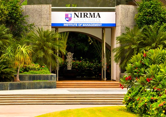 Institute of Management is a business school in Ahmedabad.